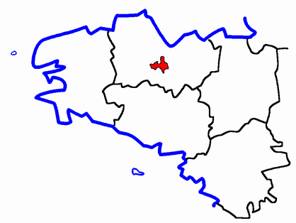 Description: Map for localisazion of cantons of Bretagne region in France Source: made by Hervé Tigier in april 2005 from another large map (published in 1990)